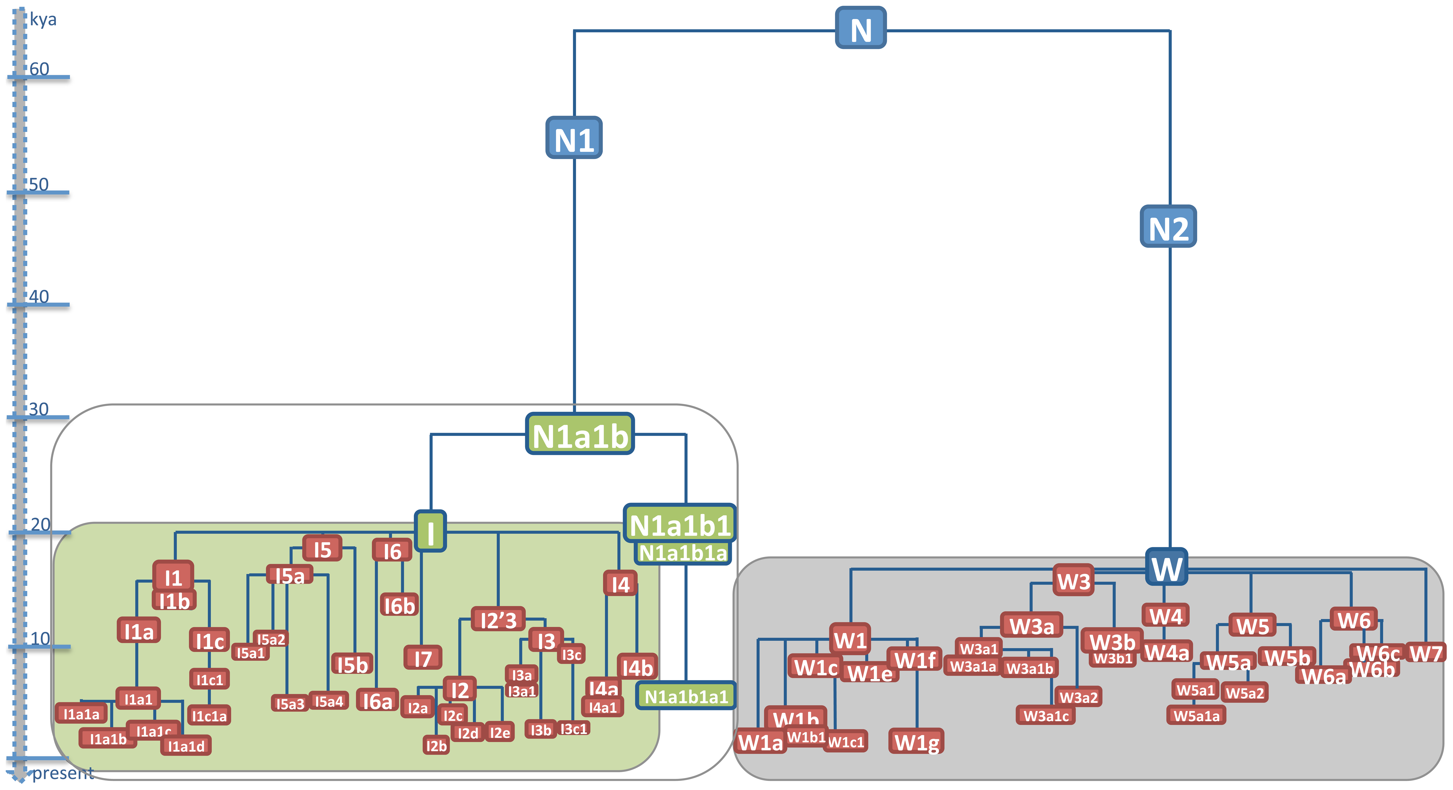 Phylogenetic tree of haplogroups N1a1b and W. This schematic representation is based on 196 N1a1b and 223 W mitogenomes. The phylogenetic connections between N1a1b and W are also shown. Approximate ages can be inferred from the scale. kya at the top-left means thousand years ago.